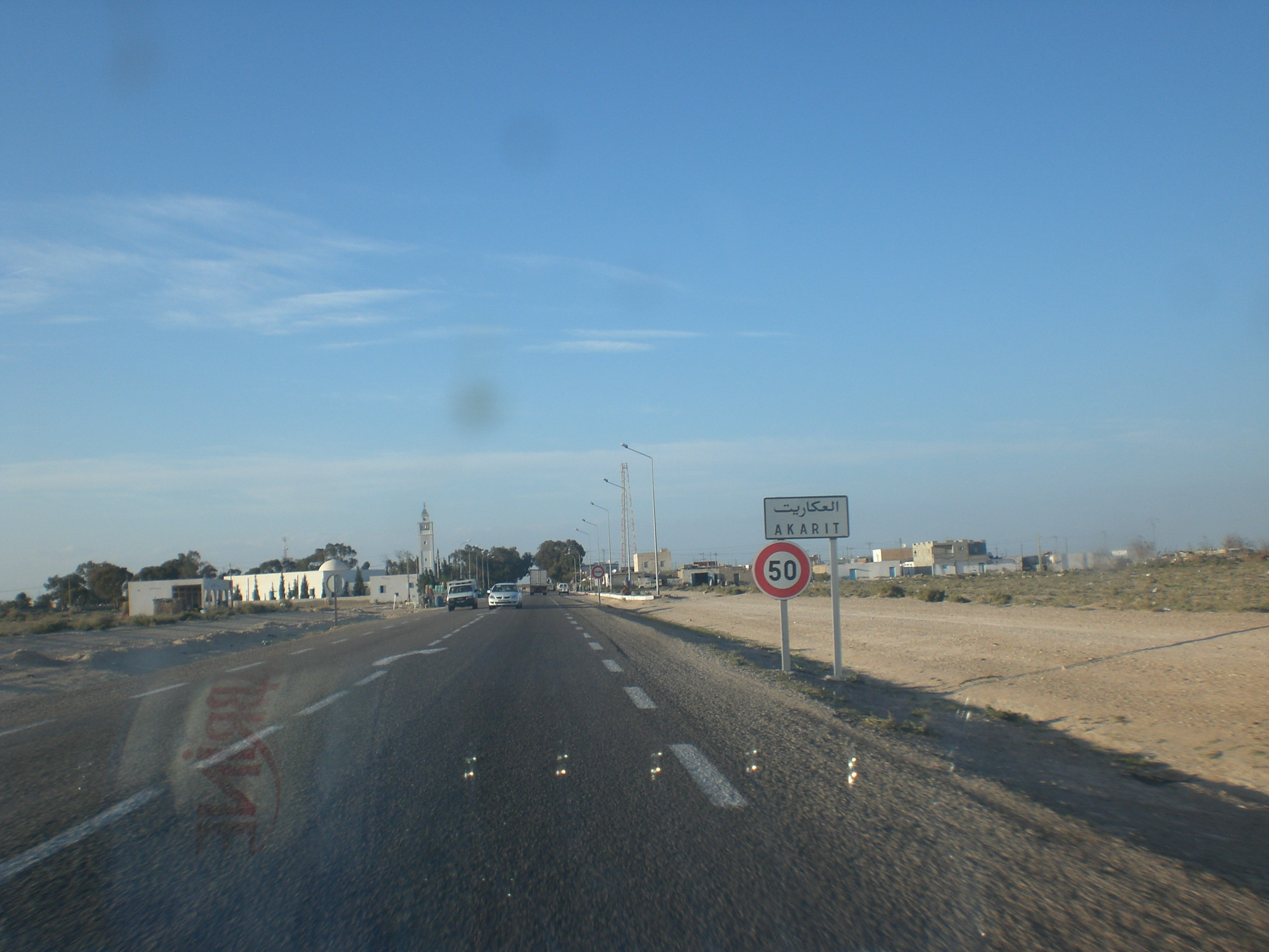 A Tunisian vilage, Akarit, near Gabès